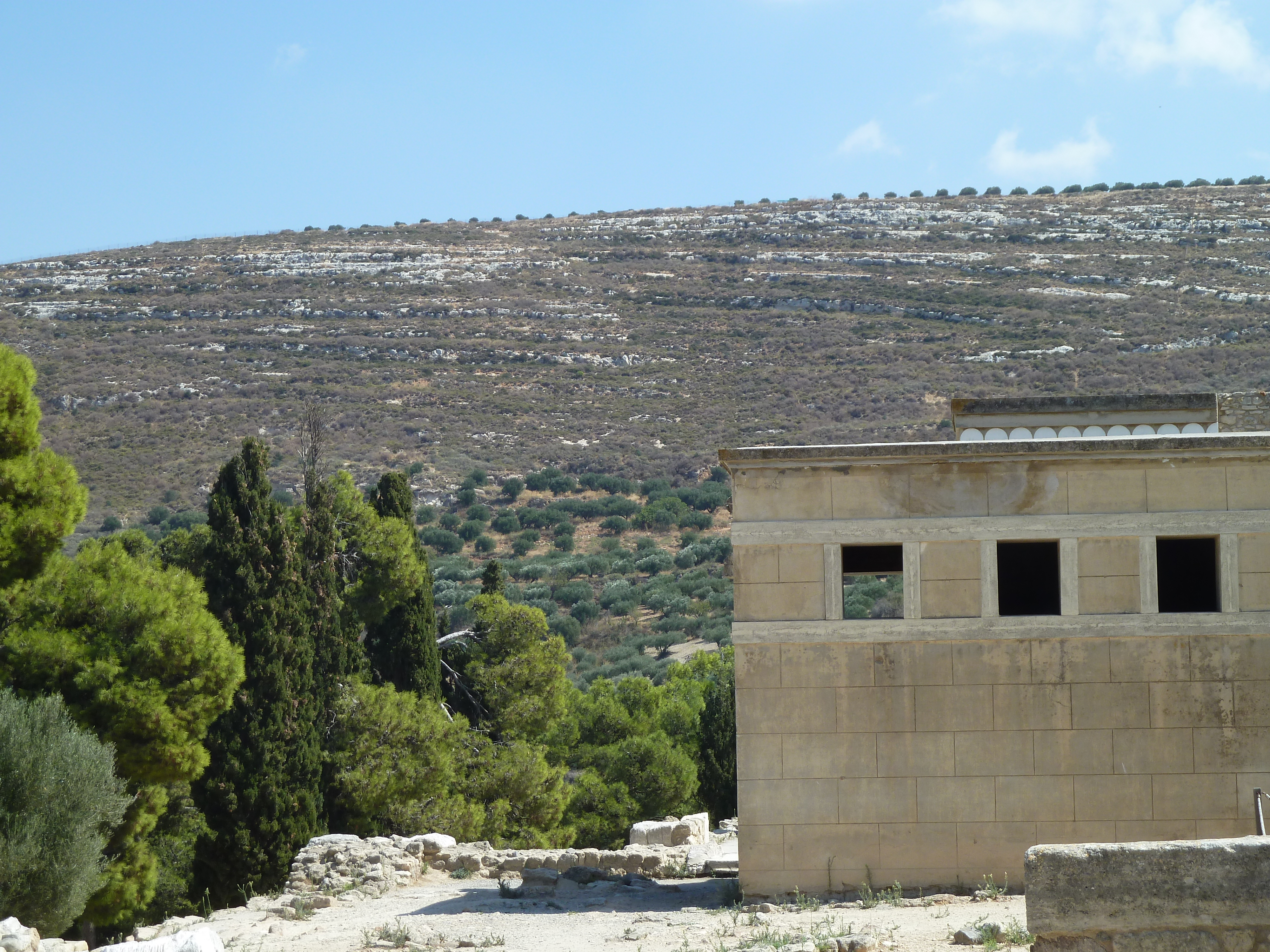 Minoean Pallace, Knossos, Crete, Greece